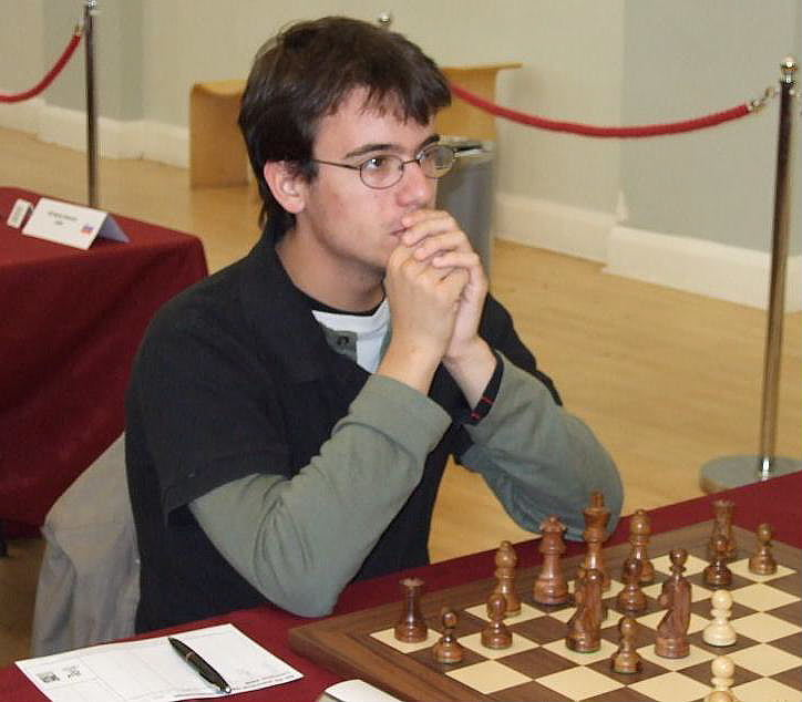 IM Romain Edouard - Round 7 of 4th EU Individual Open Ch., Liverpool World Museum, William Brown Street